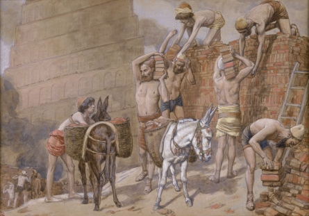 Building the Tower of Babel, c. 1896-1902, by James Jacques Joseph Tissot (French, 1836-1902), gouache on board, 8 1/8 x 11 3/4 in. (20.7 x 29.9 cm), at the Jewish Museum, New York